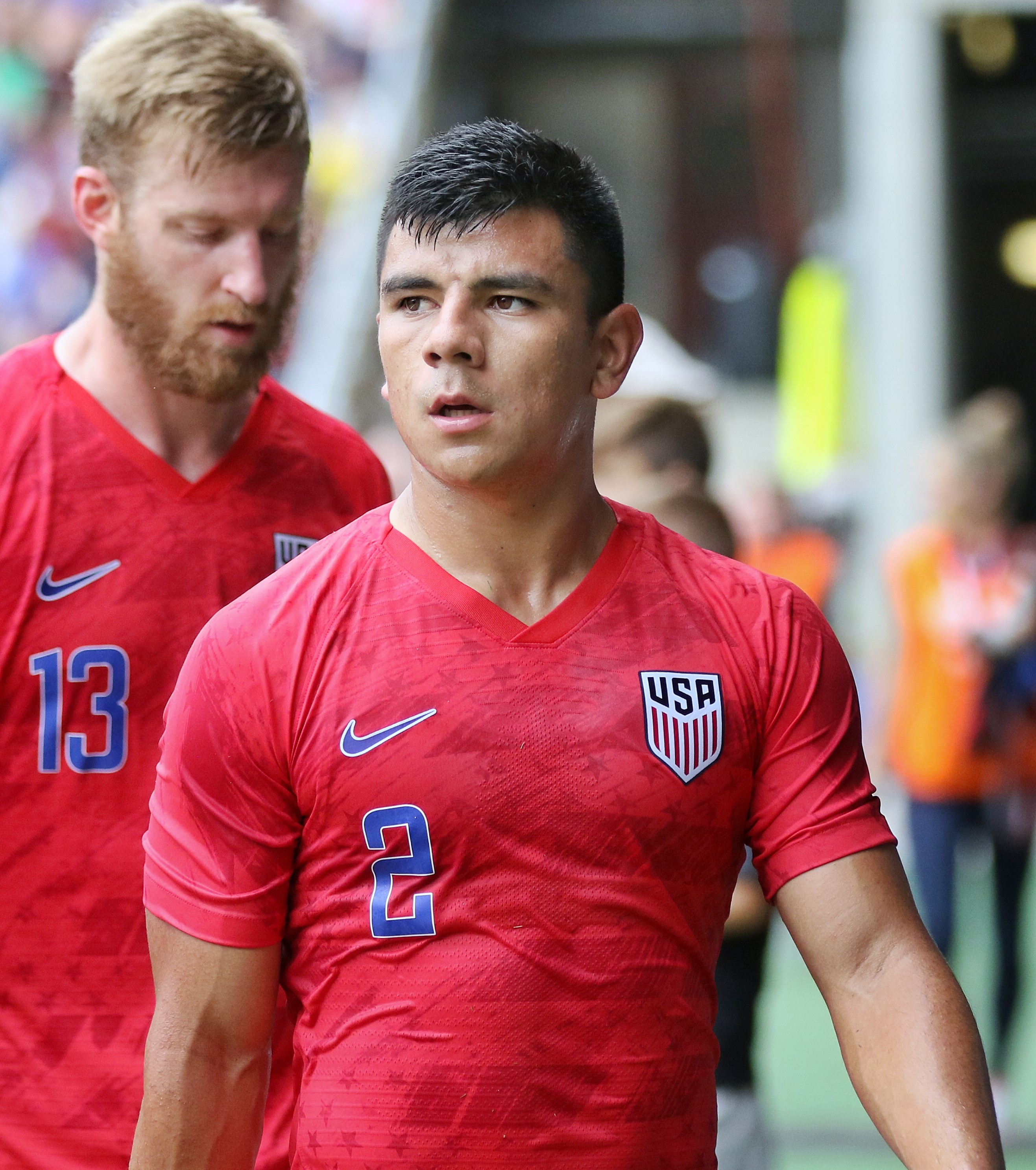 Nick Lima representing the United States men's national soccer team on June 9, 2019